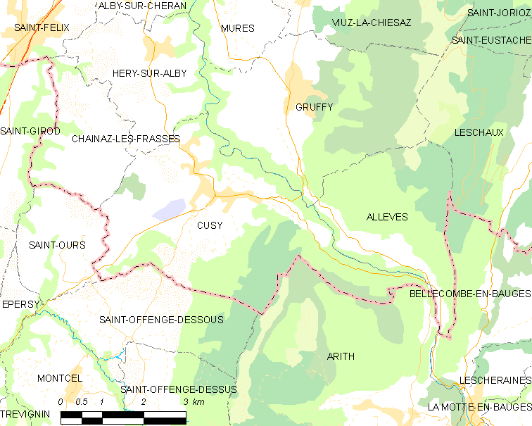 Map of French municipality Cusy